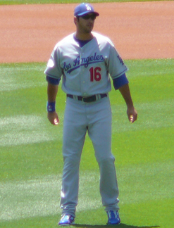 Andre Ethier, Major League Baseball player in America